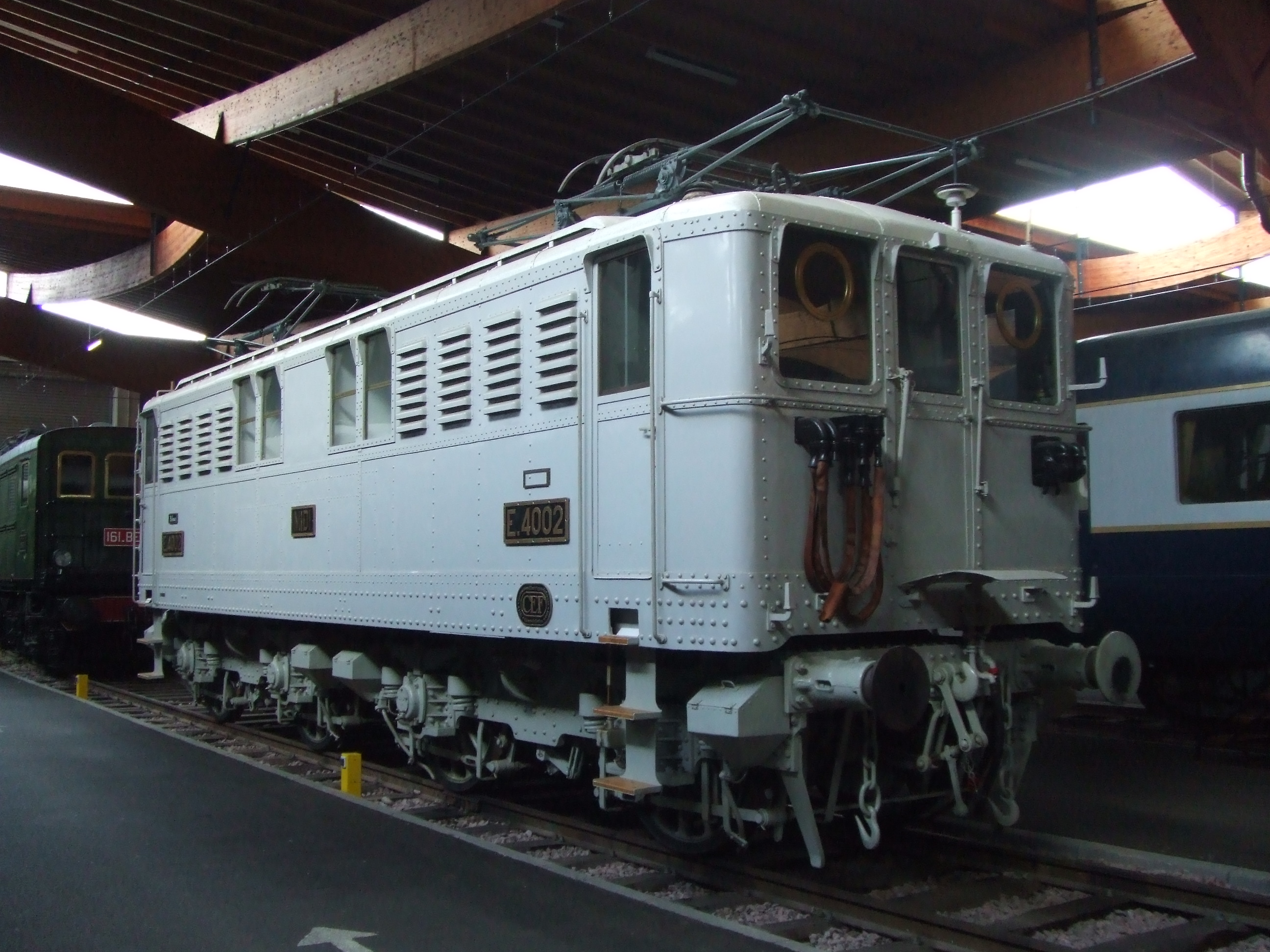 Midi CEF Class "E.4000" 1,500V dc, 1,035 hp Bo-Bo No.E.4002 built 1921 for the Pau - Lourdes line. At the SNCF Museum, Mulhouse, 3/07.